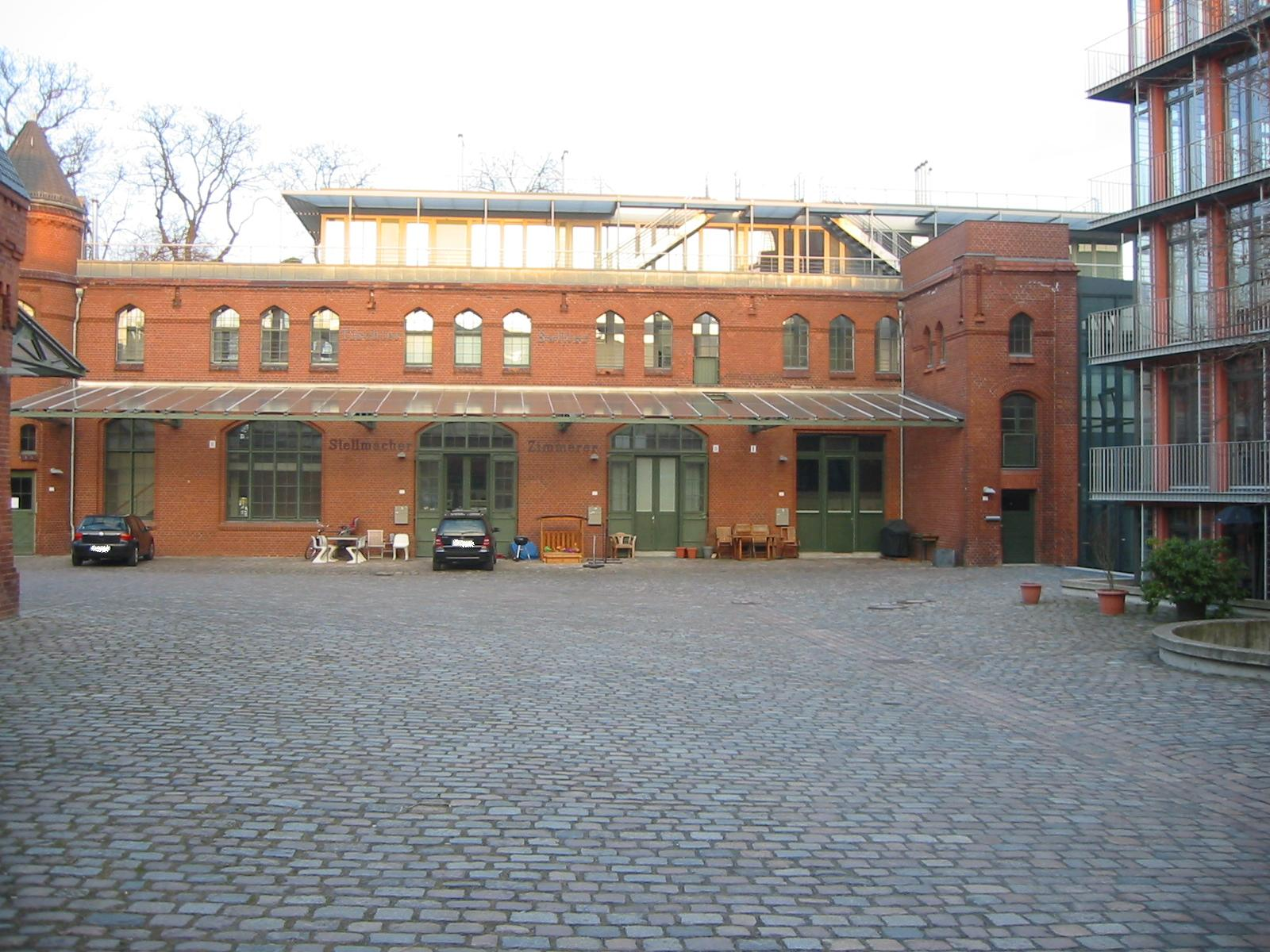 Schmiedehof in Berlin-Kreuzberg (Germany)